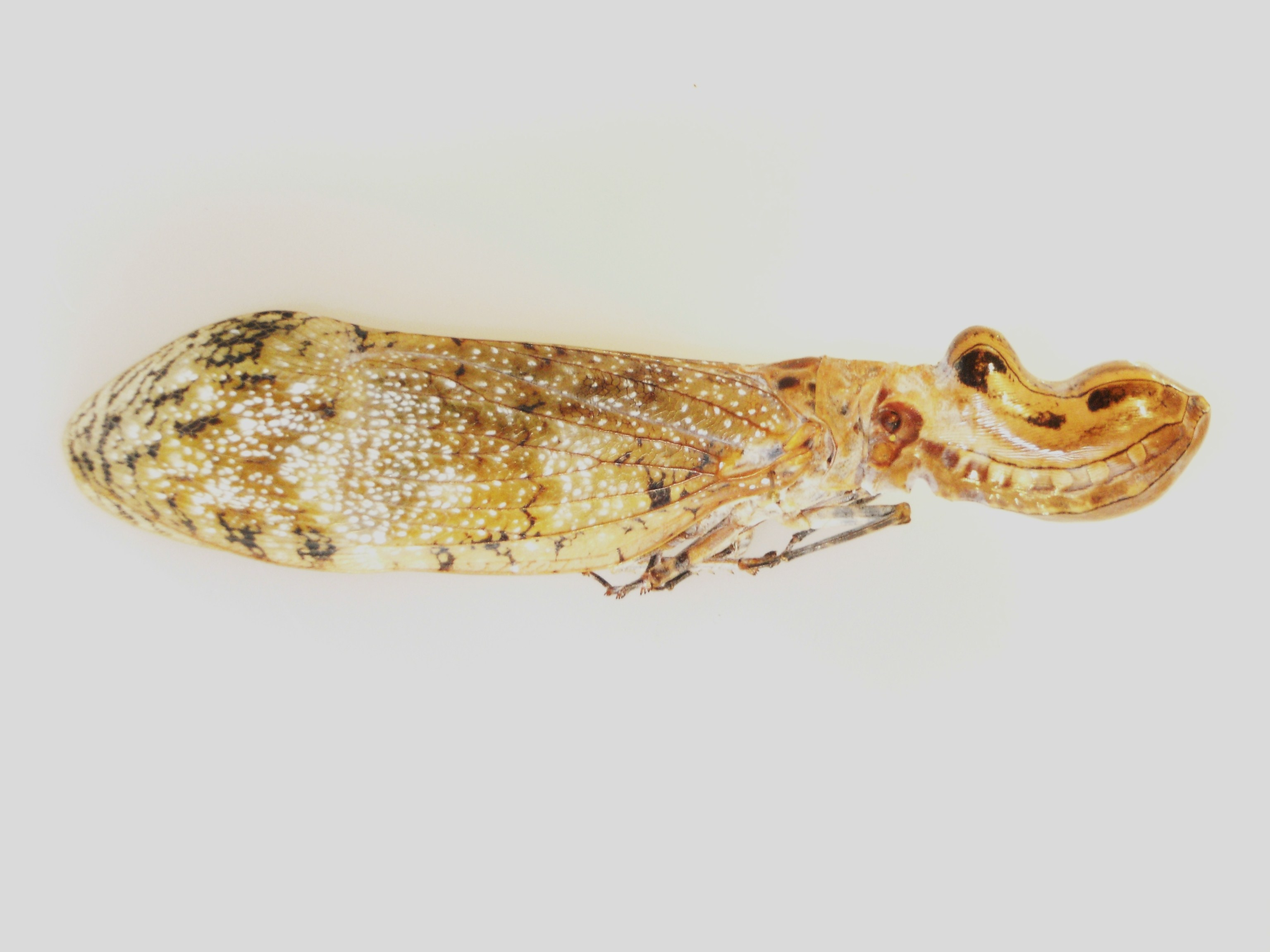 Fulgora laternaria Ex coll. Felix Stumpe